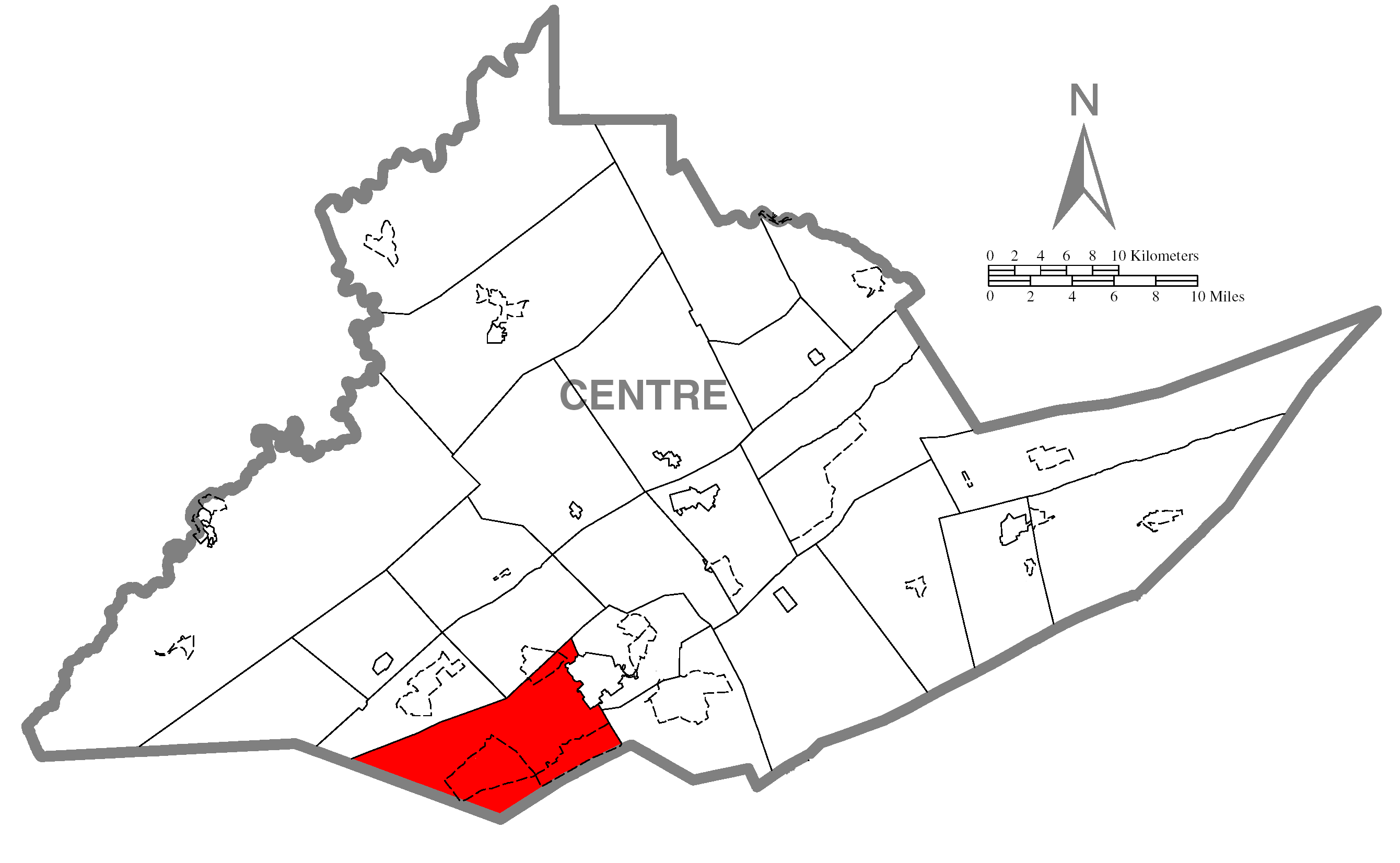 A map of Centre County showing Ferguson Township, Pennsylvania (alternate) highlighted on the map.